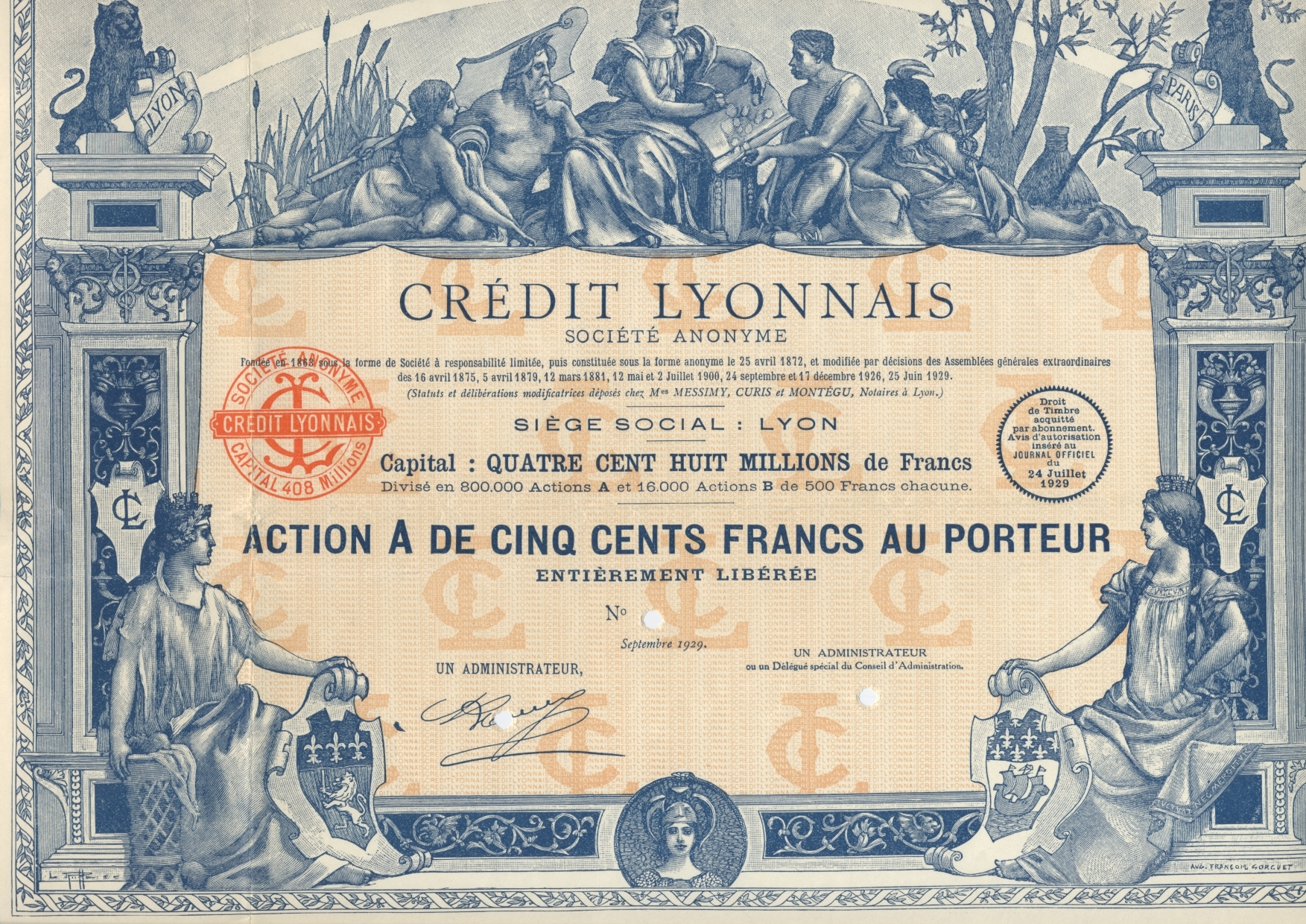 Share of french bank Crédit Lyonnais